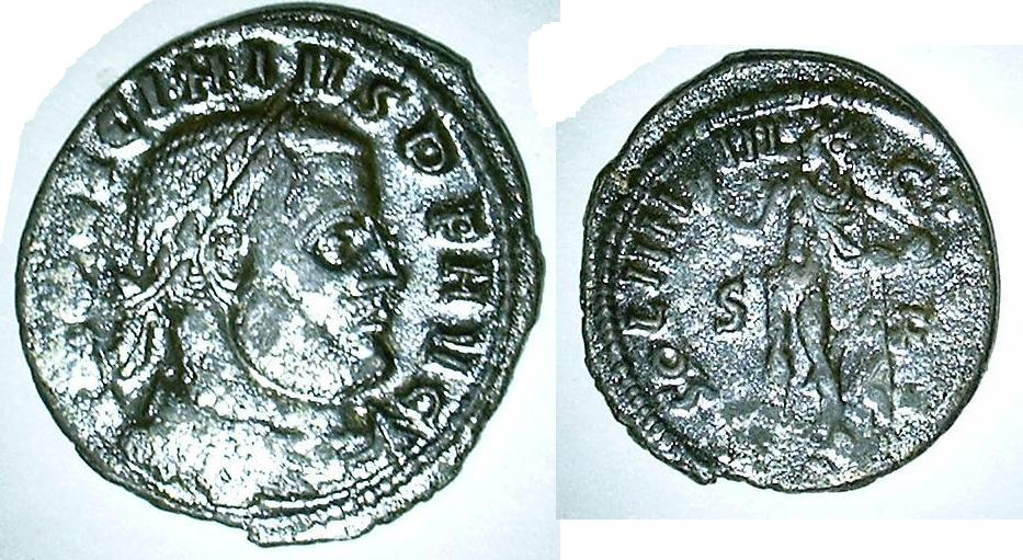 Taken with camera, both side are of the same size. Type: 315 (Licinius) Follis Obverse Legend: IMP LICINIVS PF AVG Obverse: Laureate head right Reverse Legend: SOLI INVICTO COMITI Reverse: Sol Holding Globe MM S/C//RQ Rome mint No 4 workshop. Unique